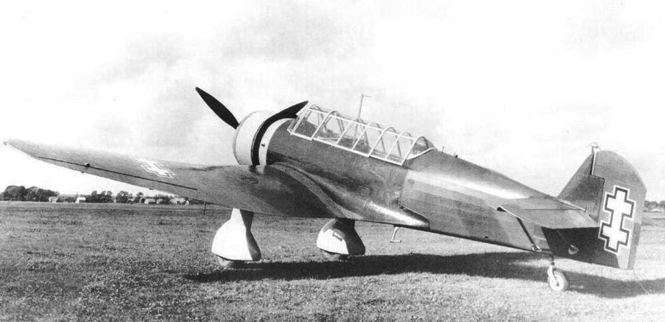 The aircraft ANBO-VIII in Kaunas.